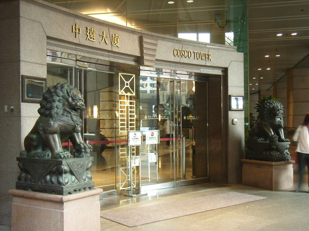 中遠大廈 (COSCO Tower), Sheung Wan, Hong Kong. 上環中遠大廈 User:Mad2006 is the photo author.